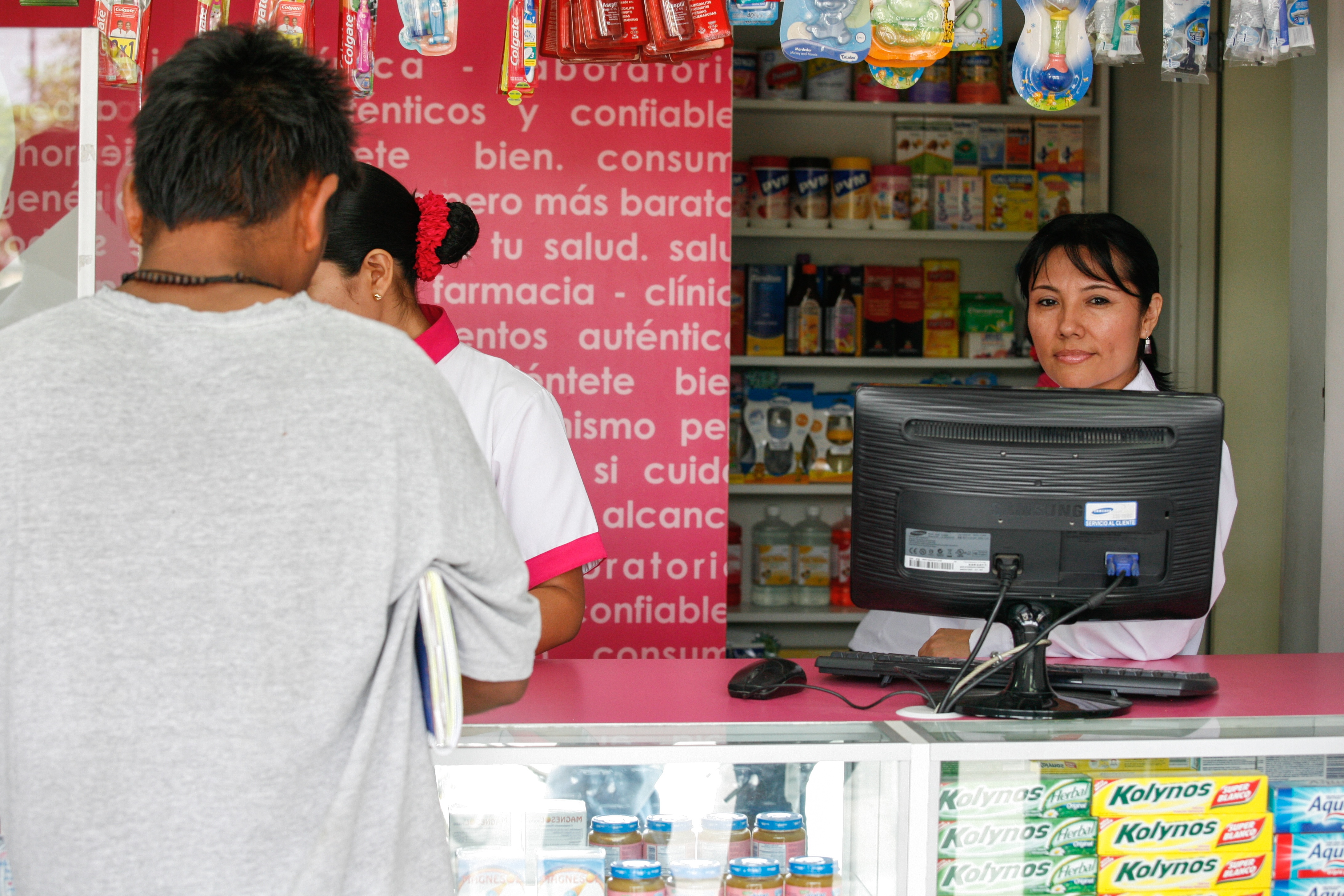 Pharmacy Service with a Smile